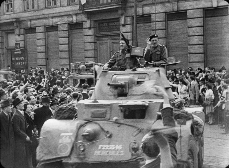 The British Army in North-west Europe 1944-45 Scenes of jubilation as British troops liberate Brussels, 4 September 1944. Lt Col H A Smith, CO of 2nd Household Cavalry Regiment, arrives in his Staghound armoured car.